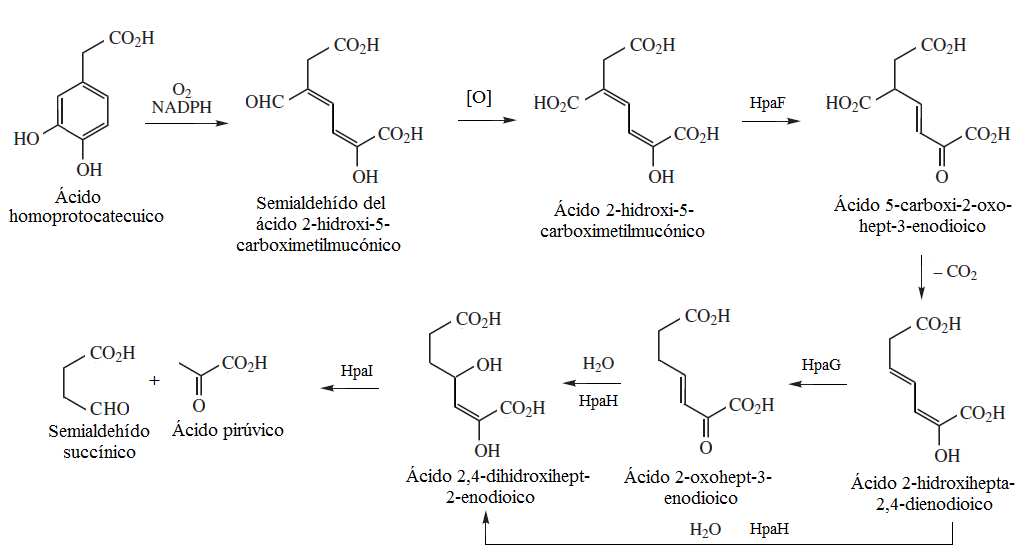 Homoprotocatechuic acid degradation scheme